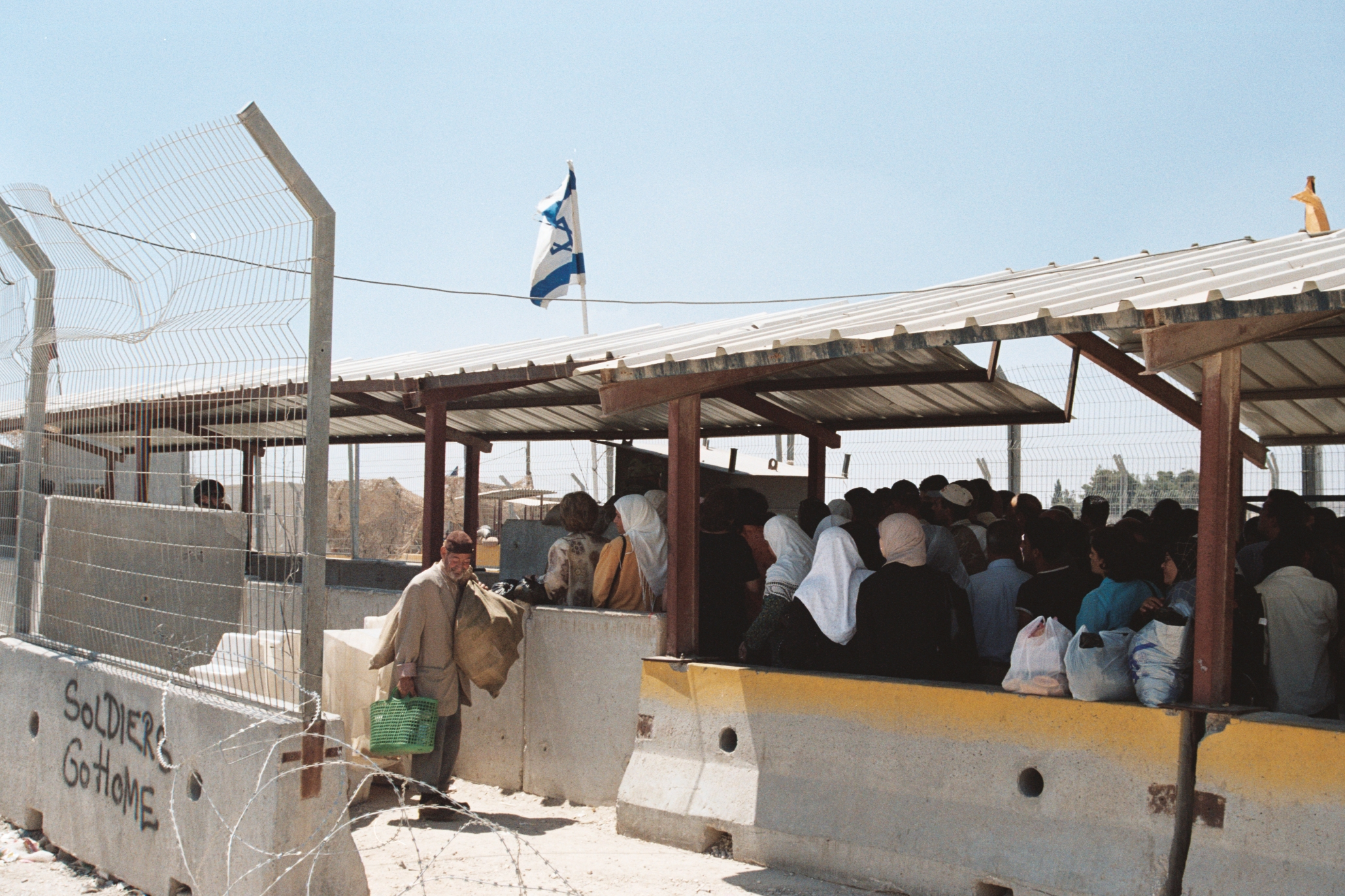 Picture of Israeli checkpoint in the West Bank, just outside the Palestinian city of Ramallah. Also known as Qalandiya Checkpoint. Queued up are Palestinian women trying to travel from one Palestinian town to another.